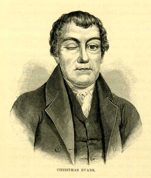 Christmas Evans (1766-1838)